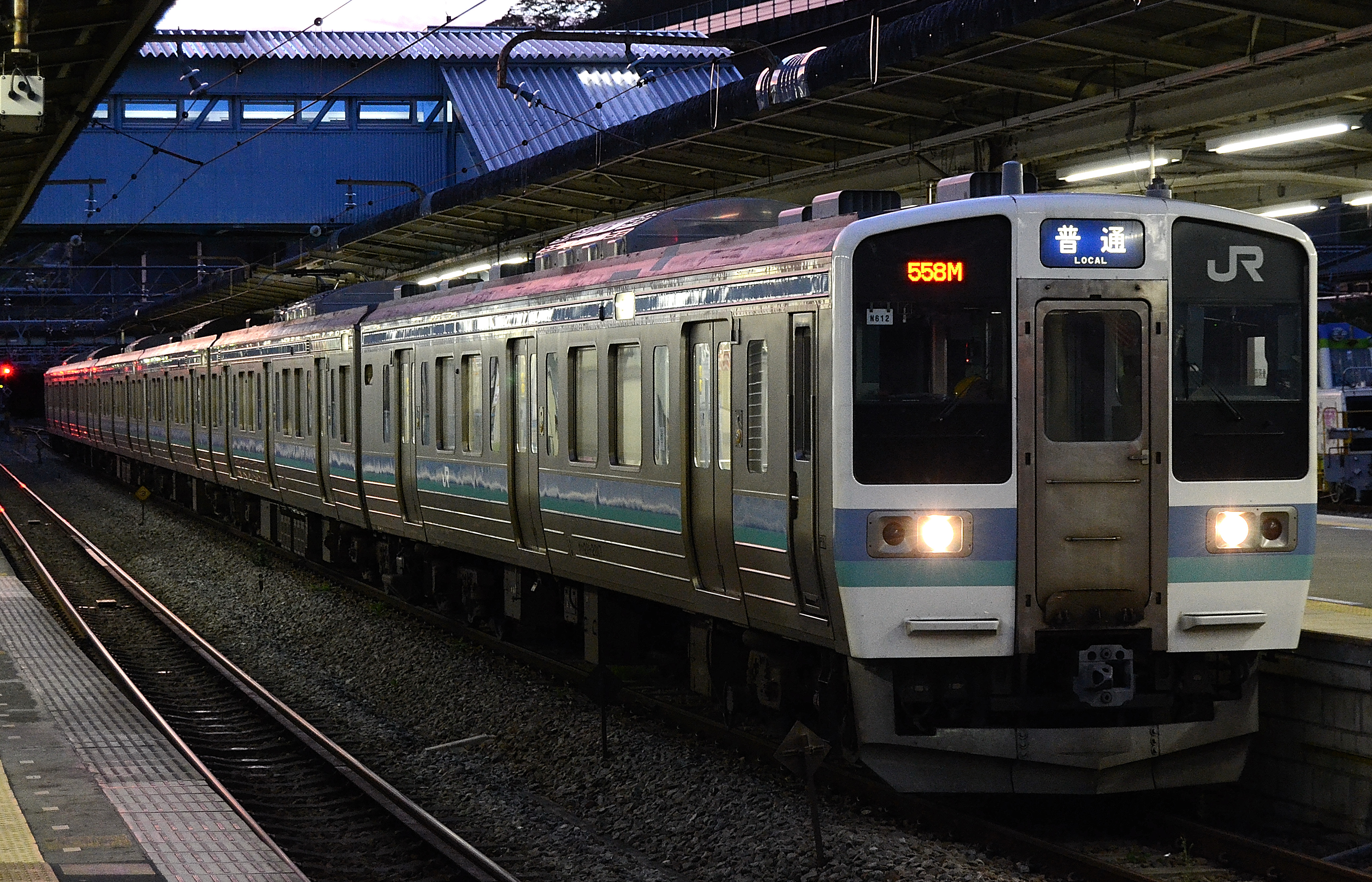 Nagano-based JR East 211-2000 series six-car EMU set N612 at Sagamiko Station